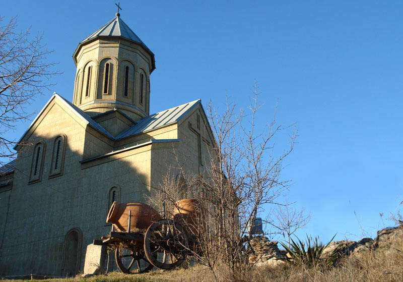 St. Nicholas Church at the Narikala Fortress in Tbilisi Georgia